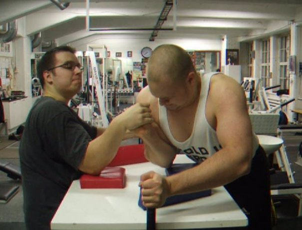 Armwrestling toproll and press